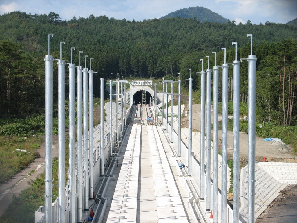 Hakkōda Tunnel , on the Tōhoku Shinkansen, Aomori Prefecture, Japan 八甲田トンネル